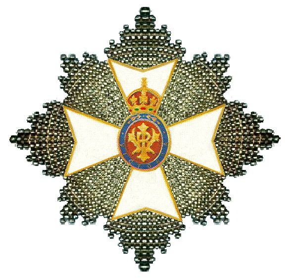 Private collection, Groningen, The Netherlands My own scan. Robert Prummel